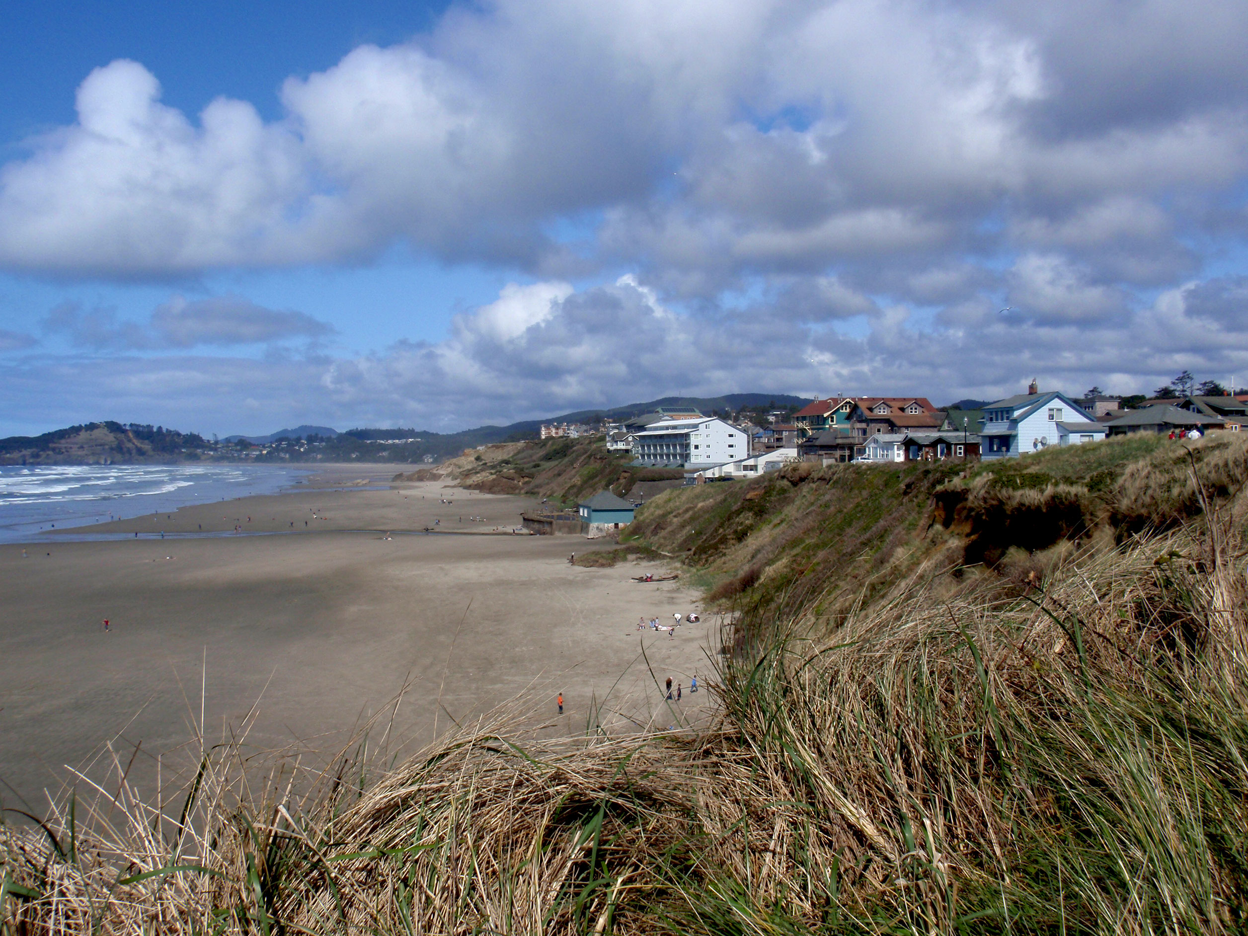 Nye Beach - View From Don Davis Park